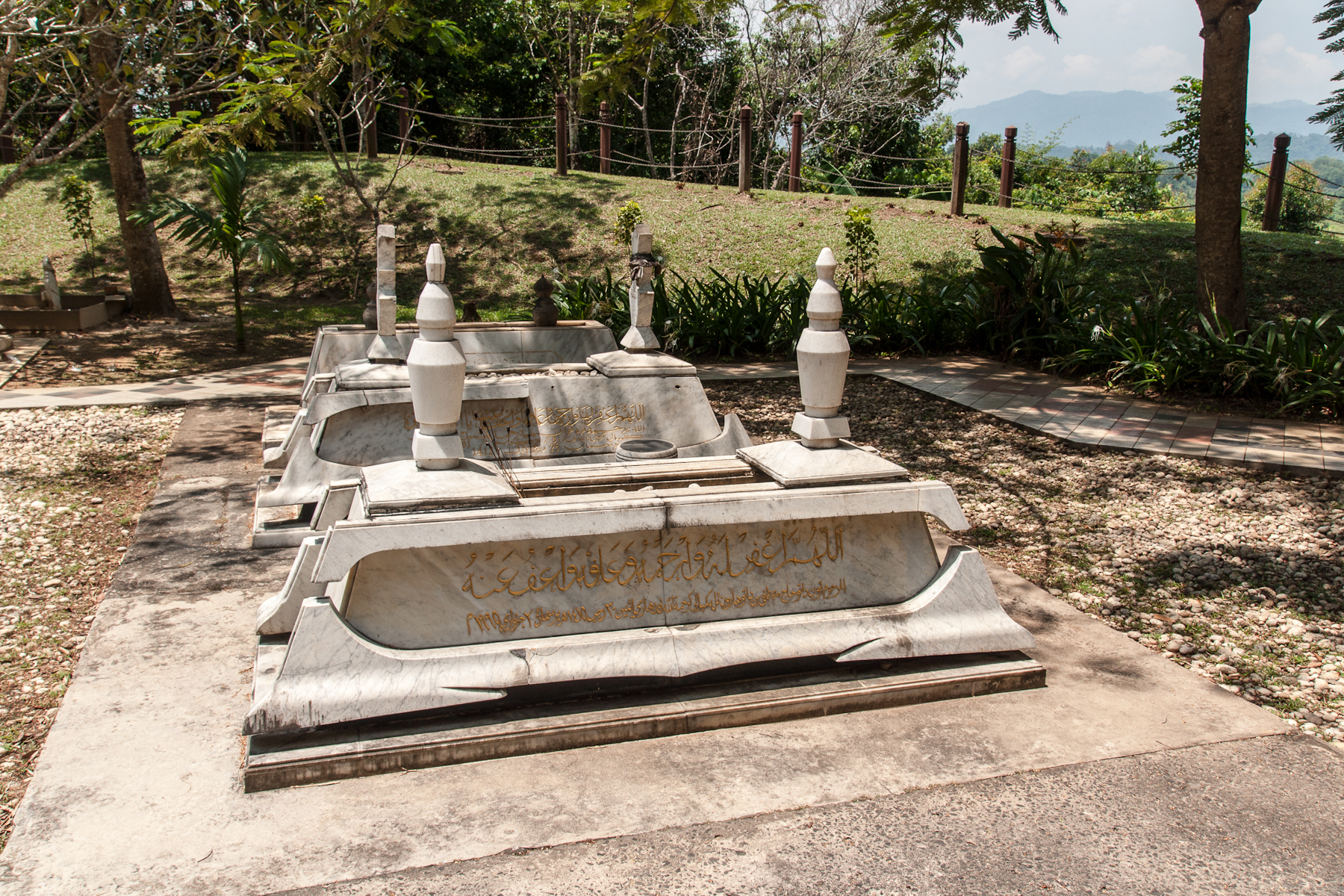 Putatan, Sabah: Taman Memorial Tun Datu Mustapha